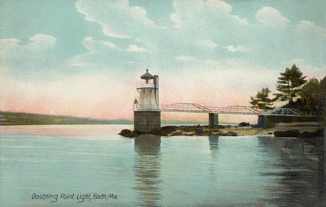 Doubling Point Lighthouse, Arrowsic, Maine. The 23 foot tower on the Kennebec River near Bath was built in 1898.